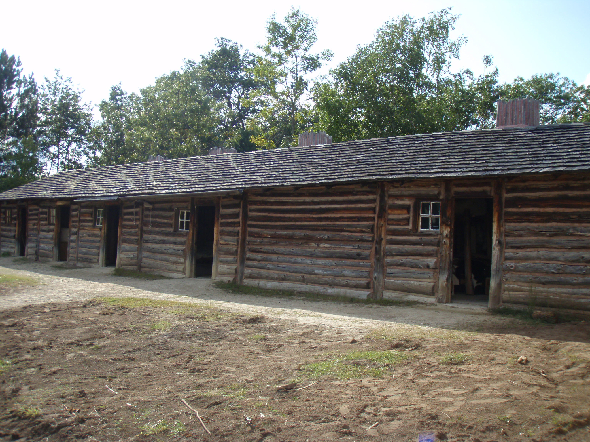 The reconstructed building at Northwest Company Post, a Minnesota Historical Society site near Pine City, Minnesota. The building is a reconstruction of a North West Company fur trading post that operated around 1804.